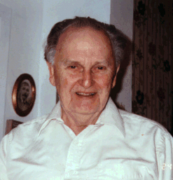 Emil Petaja, pictured in his San Francisco home in 1998